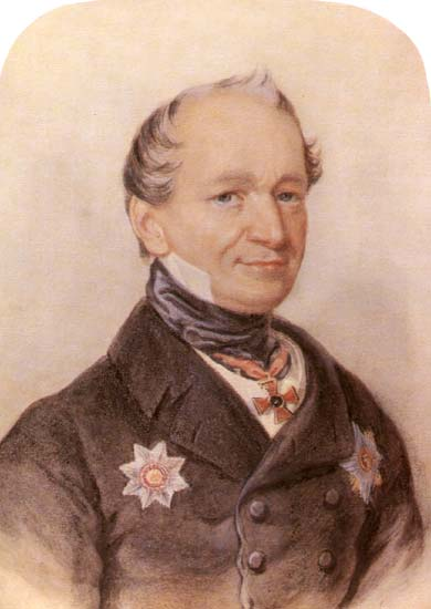 Dmitry Nikolaevich Bantysh-Kamensky, russian hystorian (1788—1850).